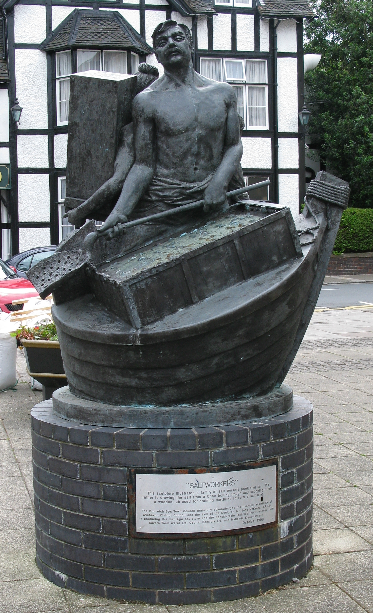 saltworkers sculpture designed to comemorate droitwich spa's history of salt production